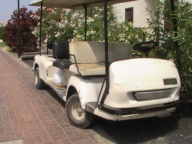 EZGO luggage carrier in a hotel in Spain 2007.